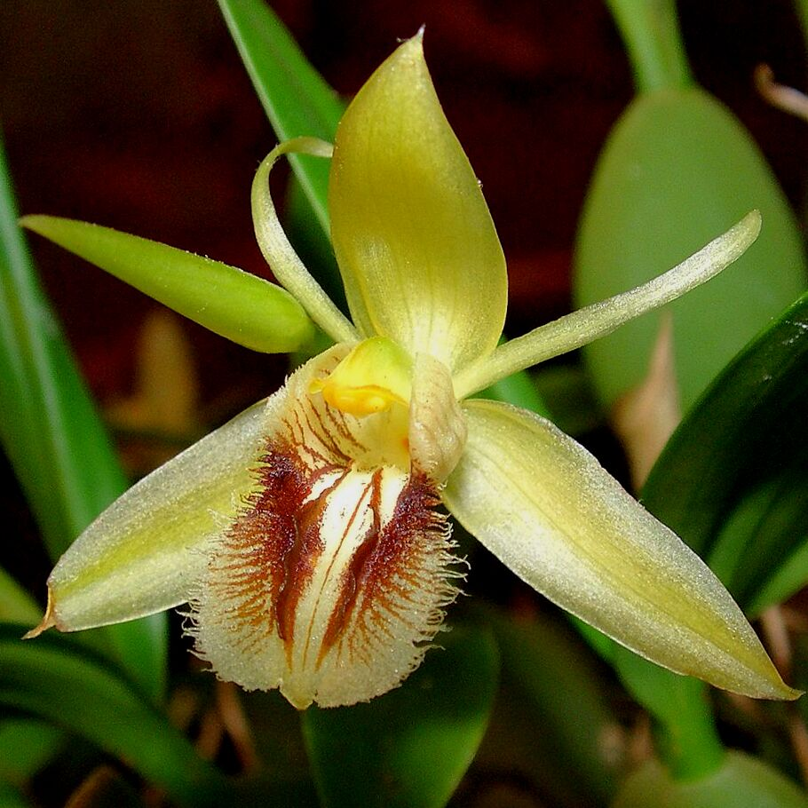 Coelogyne fimbriata - flowers